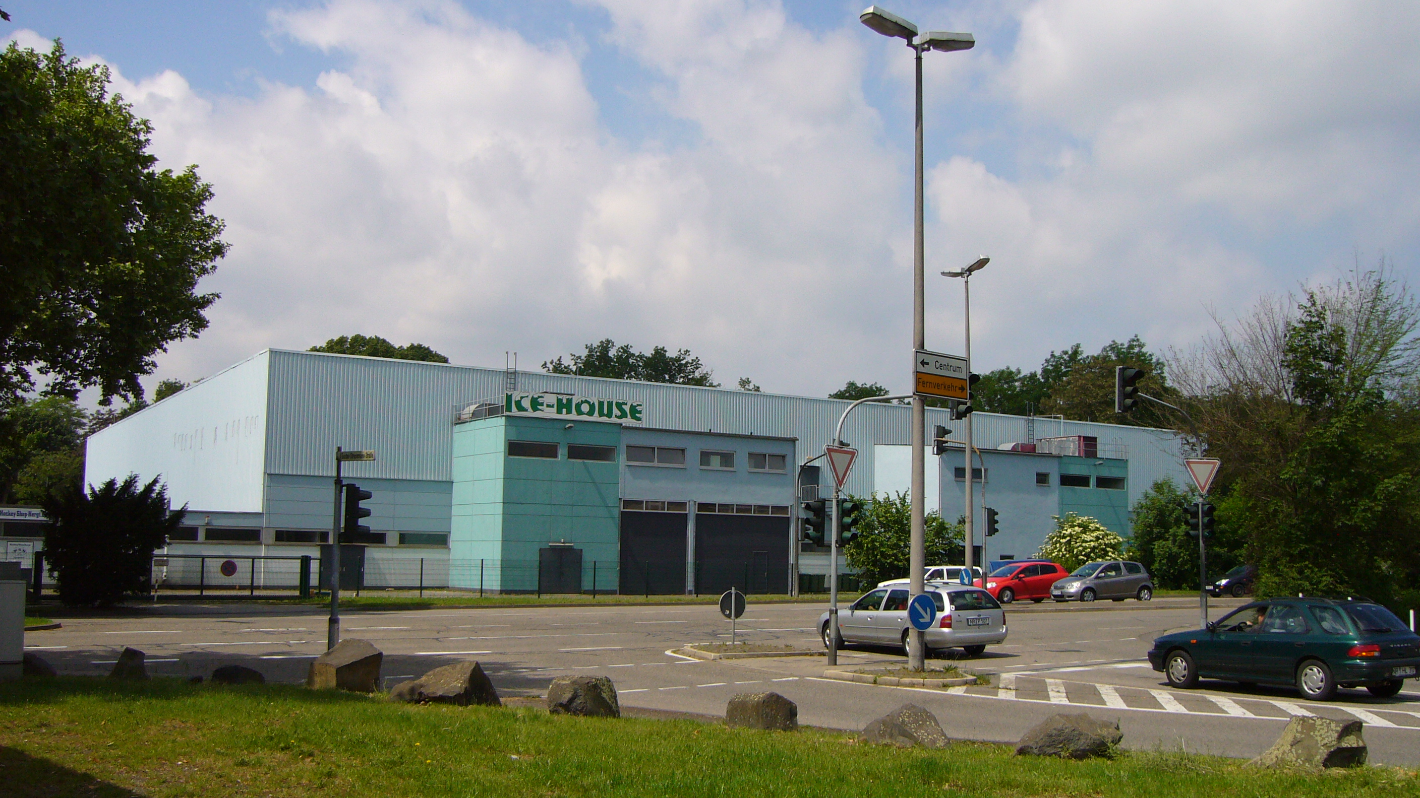 Eissporthalle